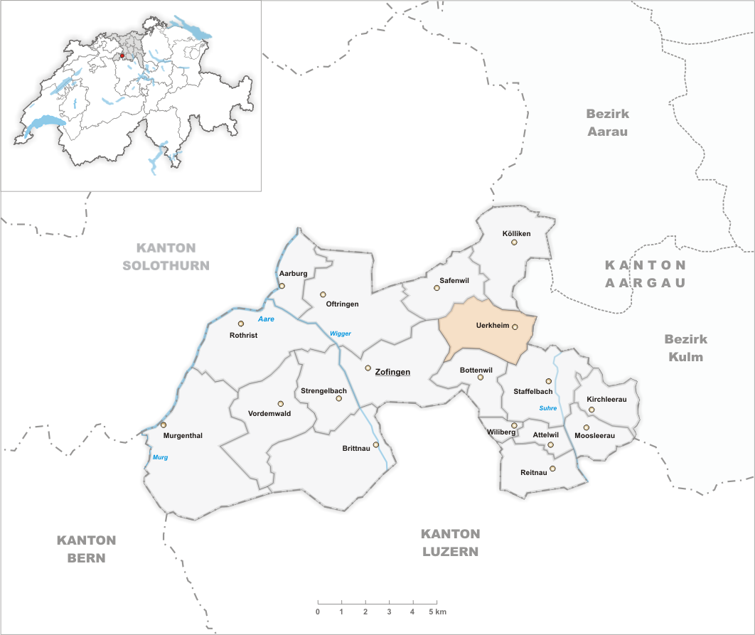 Municipality Uerkheim